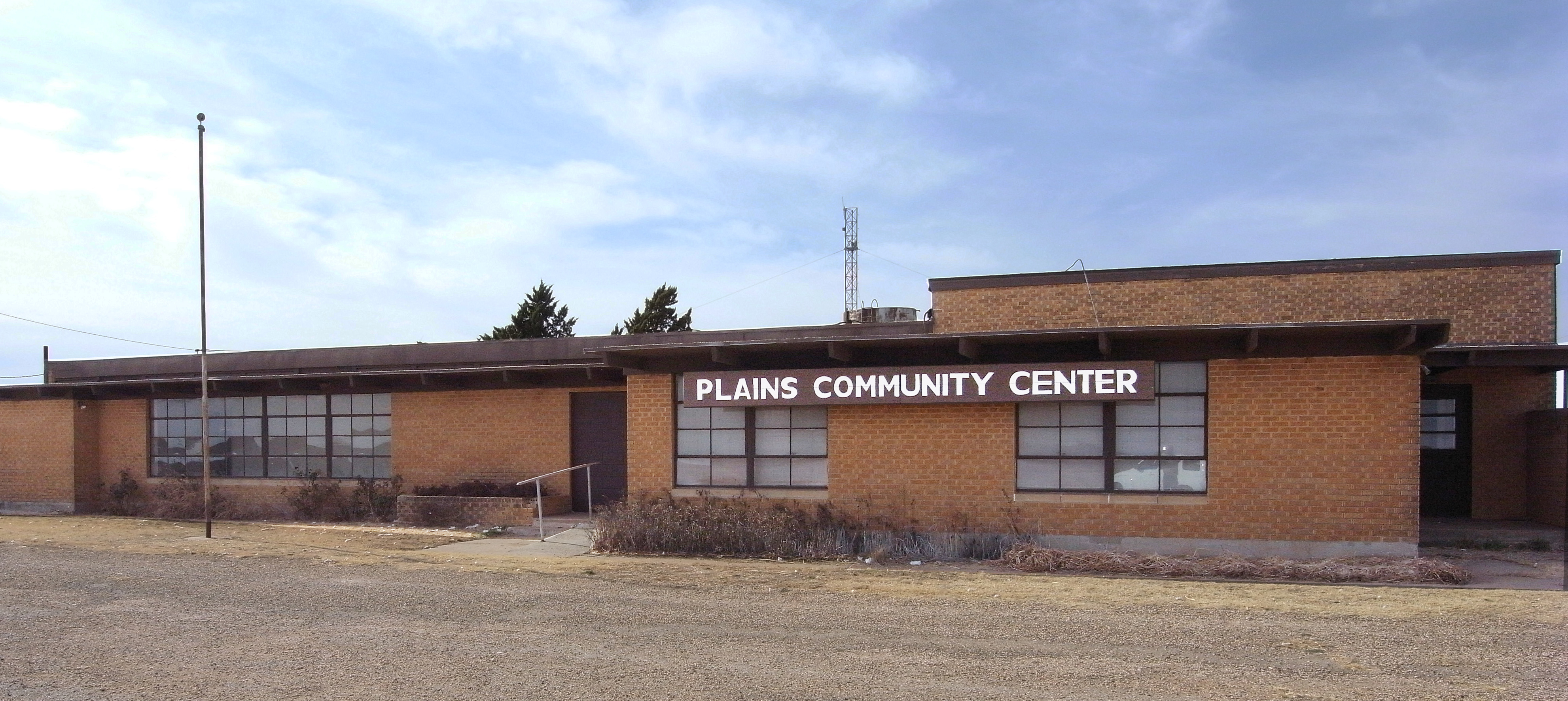 Abandoned school, now a community center in Plains, Borden County, Texas.